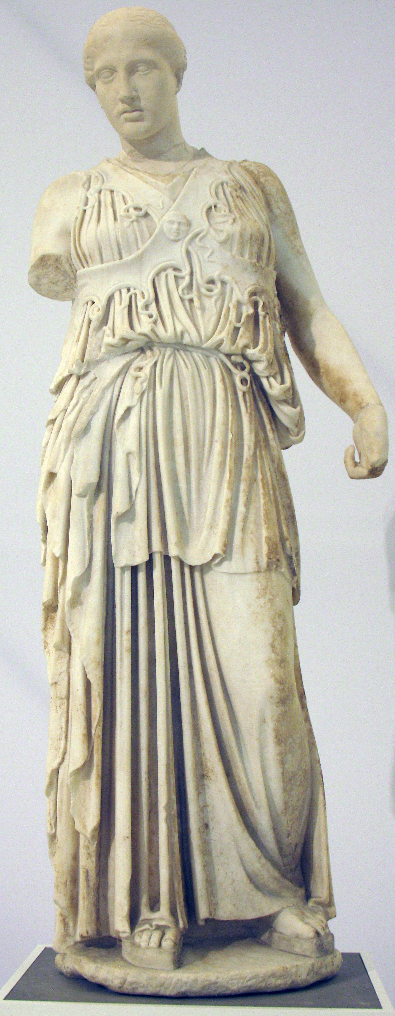 Athena with cross-strapped aegis, 180-170 B.C., Pergamon